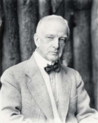 Walter Leighton Clark, American Artist 1859 - 1935 Peter A. Juley & Son, photographic firm. Juley, Paul, 1890-1975, photographer. Held in the Smithsonian Institution Link for photograph [1]